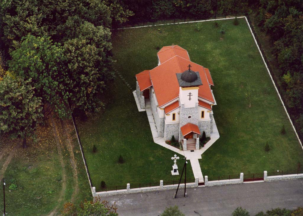 Szirmabesenyő, temple, hungary, aerial photographyUrunk színeváltozása-templom (görögkatolikus templom), 2000-ben épült. - Borsod-Abaúj-Zemplén megye, Szirmabesenyő